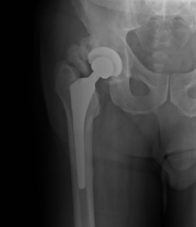 Heterotopic ossification of the hip, s/p total hip arthroplasty